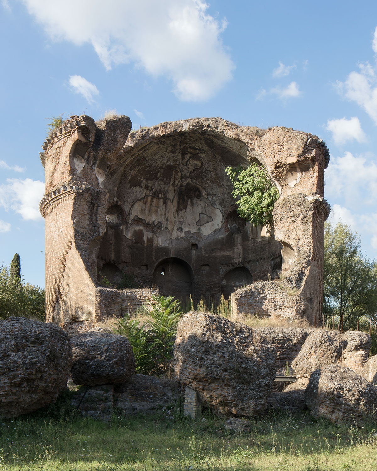 This is a photo of a monument which is part of cultural heritage of Italy.